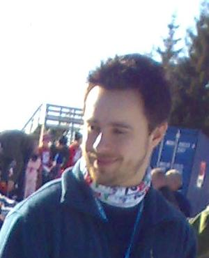 Stian Barsnes Simonsen